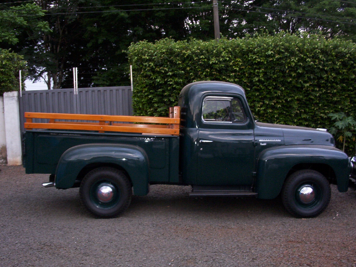 1954 International R110 Truck in Brazil. SD220 100hp Engine. 3-Speed Transmission.